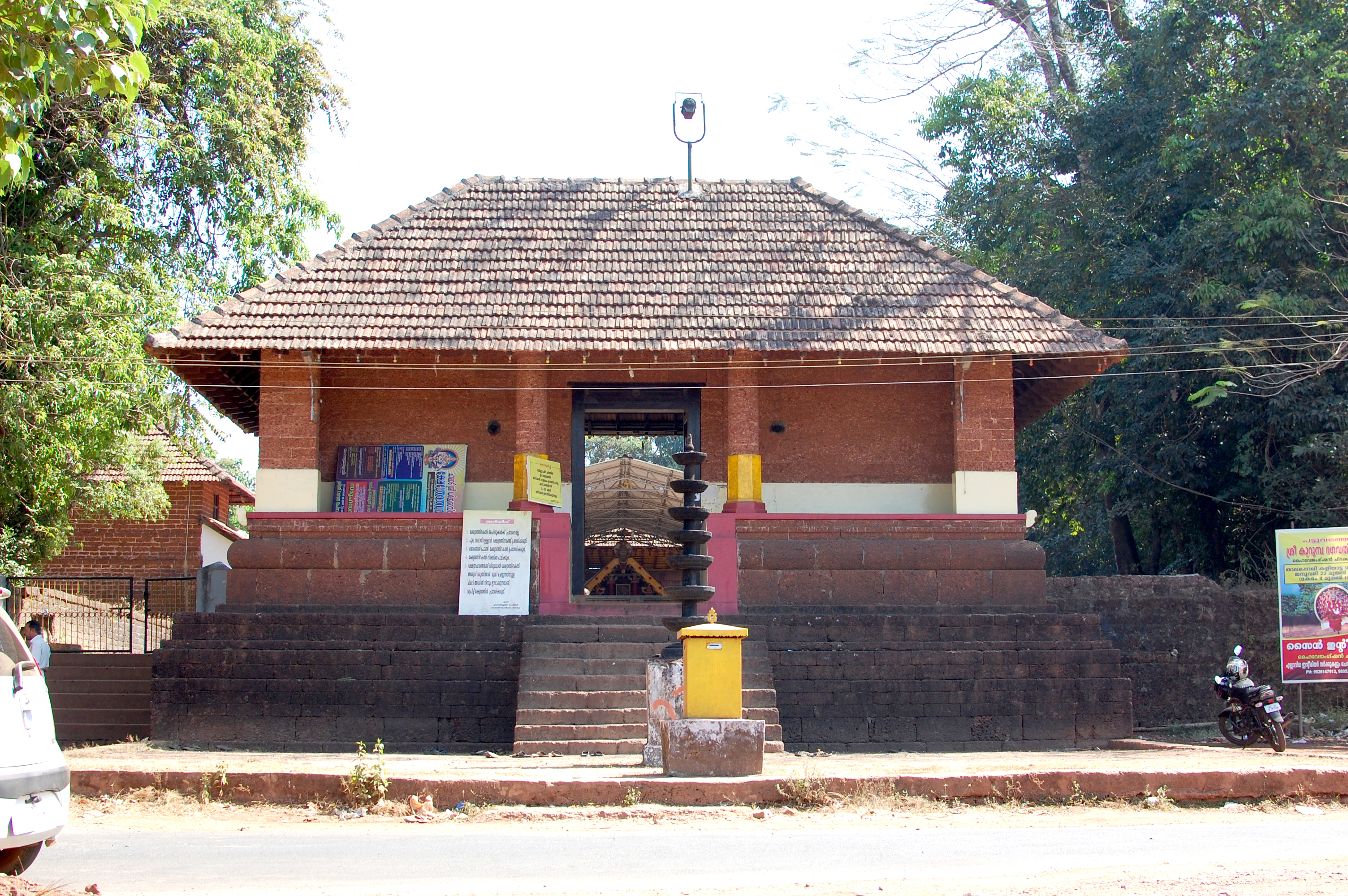 Kalarivathukkal temple entrance